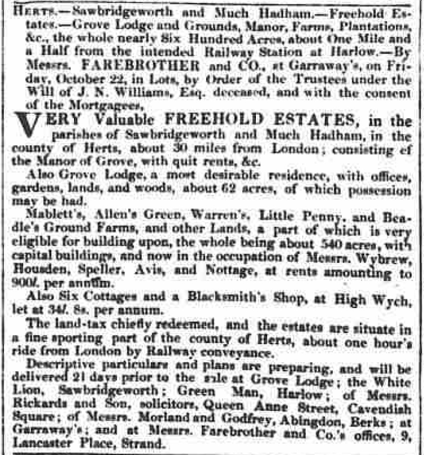 Sale notice for the Manor of Groves, Hertfordshire, 1841.